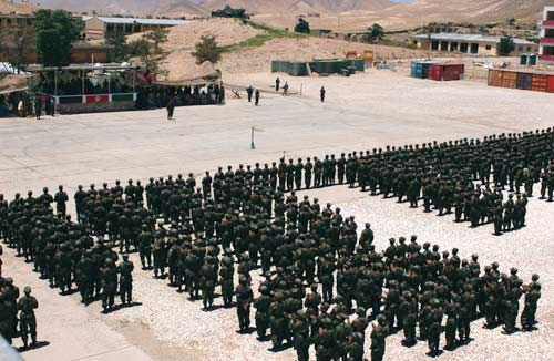 Trainees from the 1st Battalion, Afghanistan National Army, perform drill and ceremony at the graduation event at the Kabul Military Training Center in Kabul, Afghanistan. This is the first ever graduating class for the Afghanistan National Army. Photo by Senior Airman Bethann Hunt, USAF